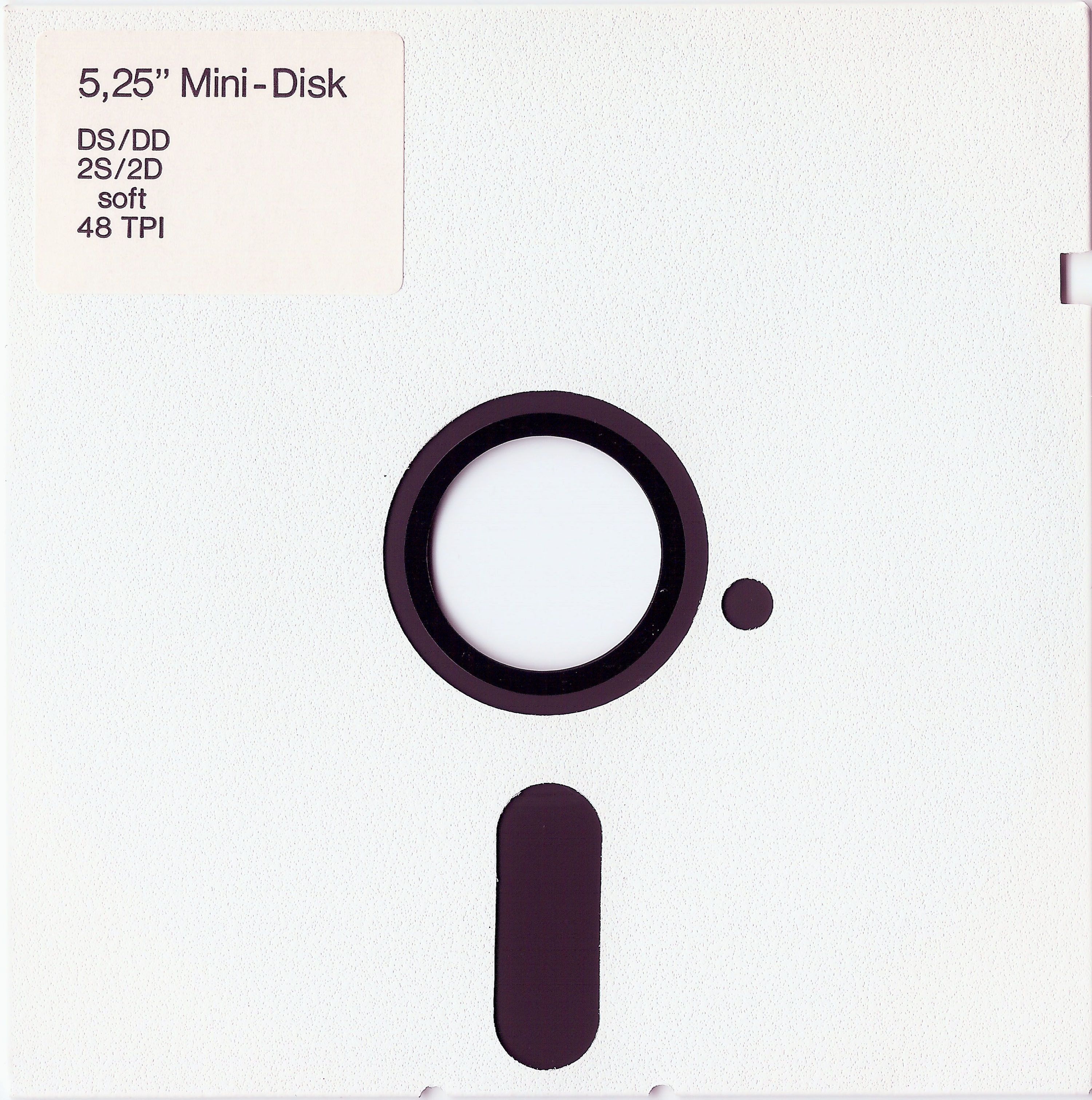 5.25-inch white floppy disk, front.